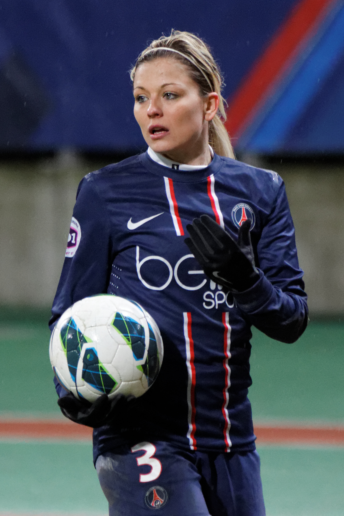 PSG-Montpellier, January 13th, 2013. Laure Boulleau (PSG).